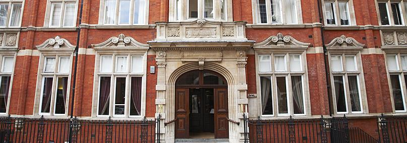 Ground floor of The Cinnamon Club, 28–32 Great Smith Street, London SW1, seen from the east. Built in 1893 as Westminster Public Library.